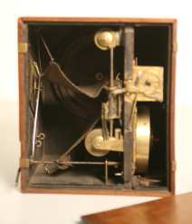 Inside view of the "Cronofotografo", built by Oreste Pasquarelli and preserved in the "Museo nazionale del Cinema" in Turin, Italy.